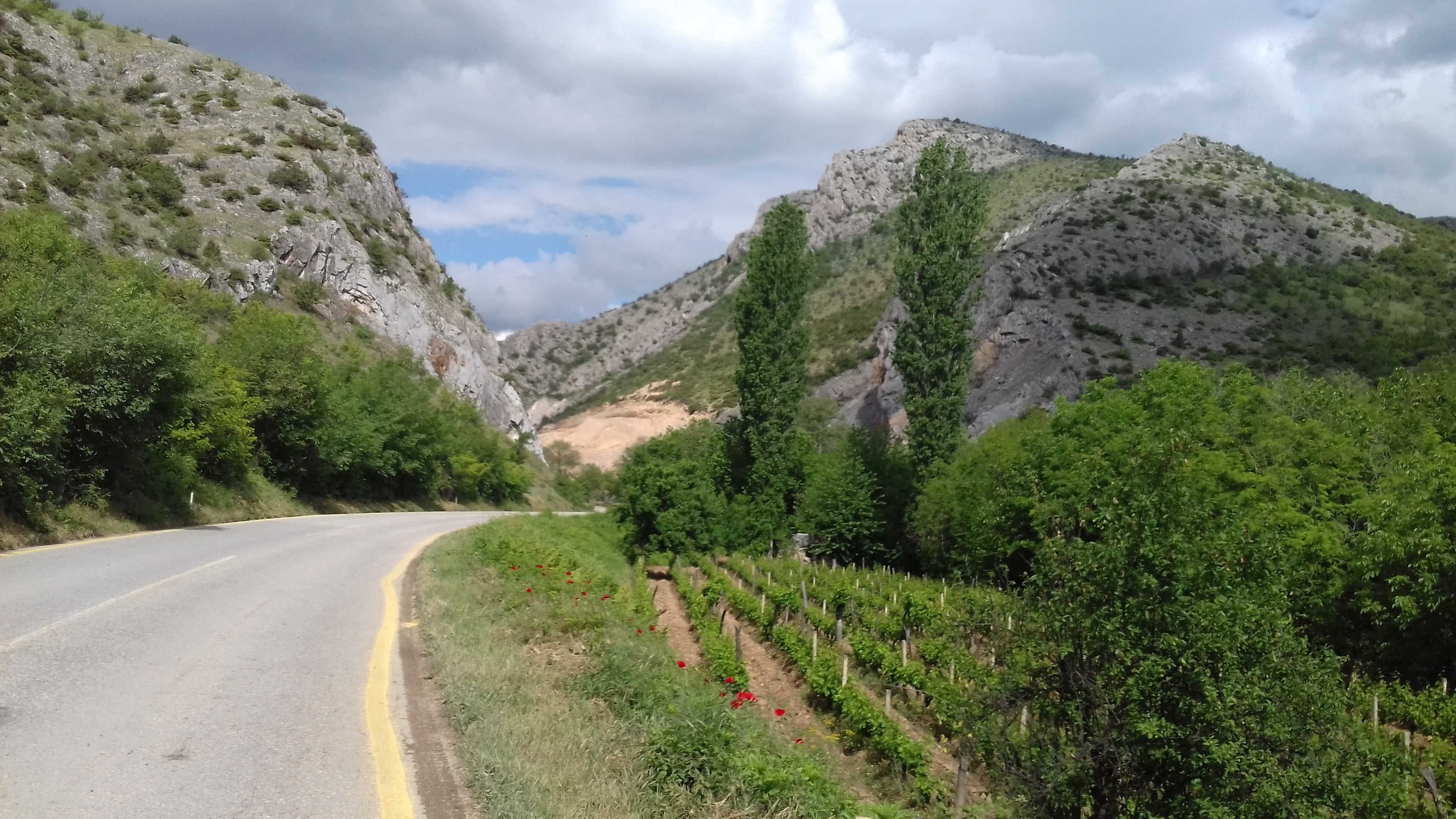 Drenovo gorge, Macedonia